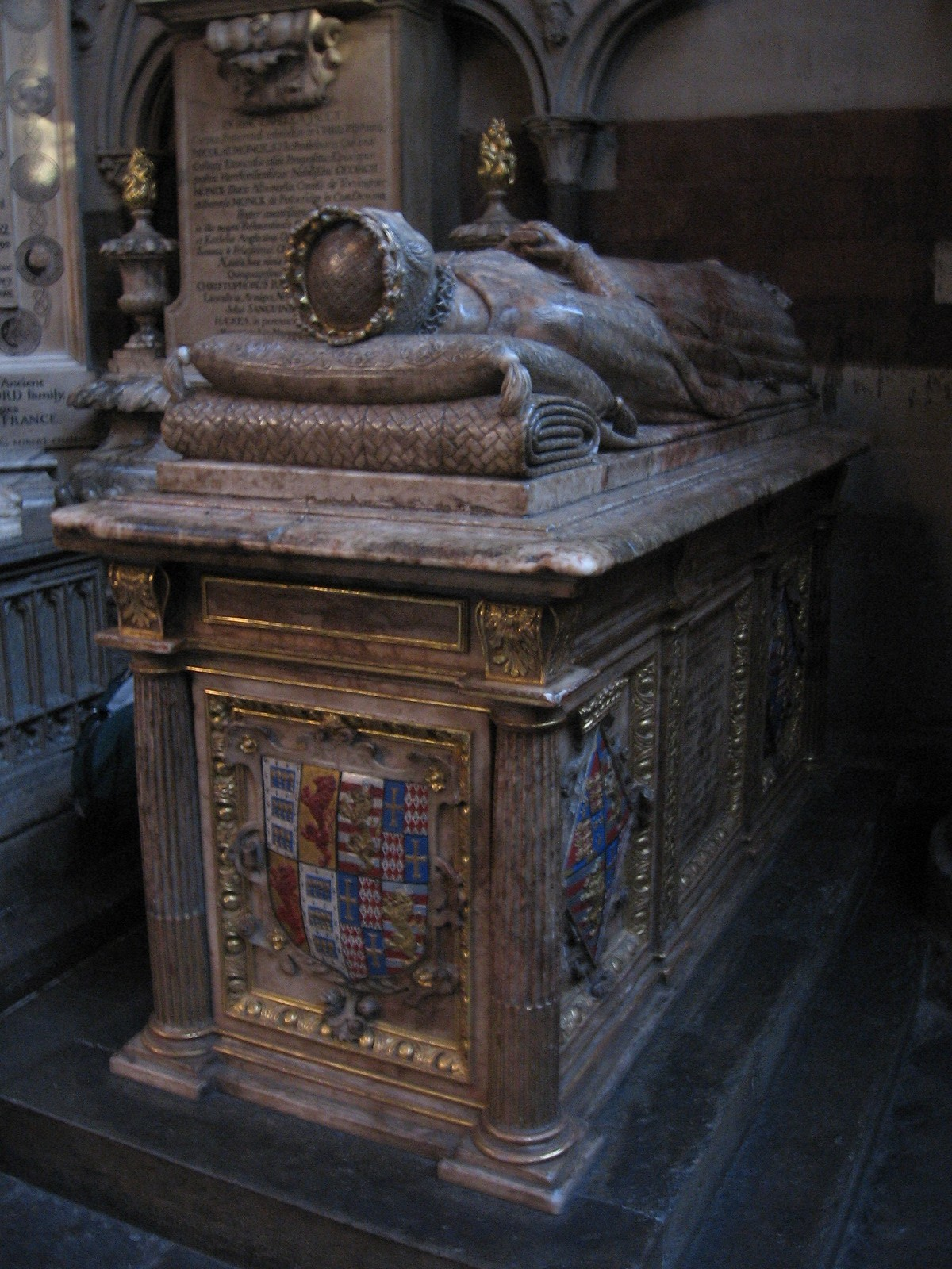 Marble tomb of Frances Brandon, Duchess of Suffolk in Westminster Abbey, St. Edmunds Chapel, erected four years after her death by her second husband, Adrian Stokes. She is depicted wearing the ermine mantle and crown of a duchess and holds a book of prayer in her hands. The effigy is in good condition although covered in incised names and the nose had to be mended at one point.